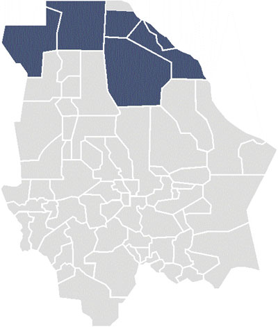 Map of the First Federal Electoral District of the State of Chihuahua, México.